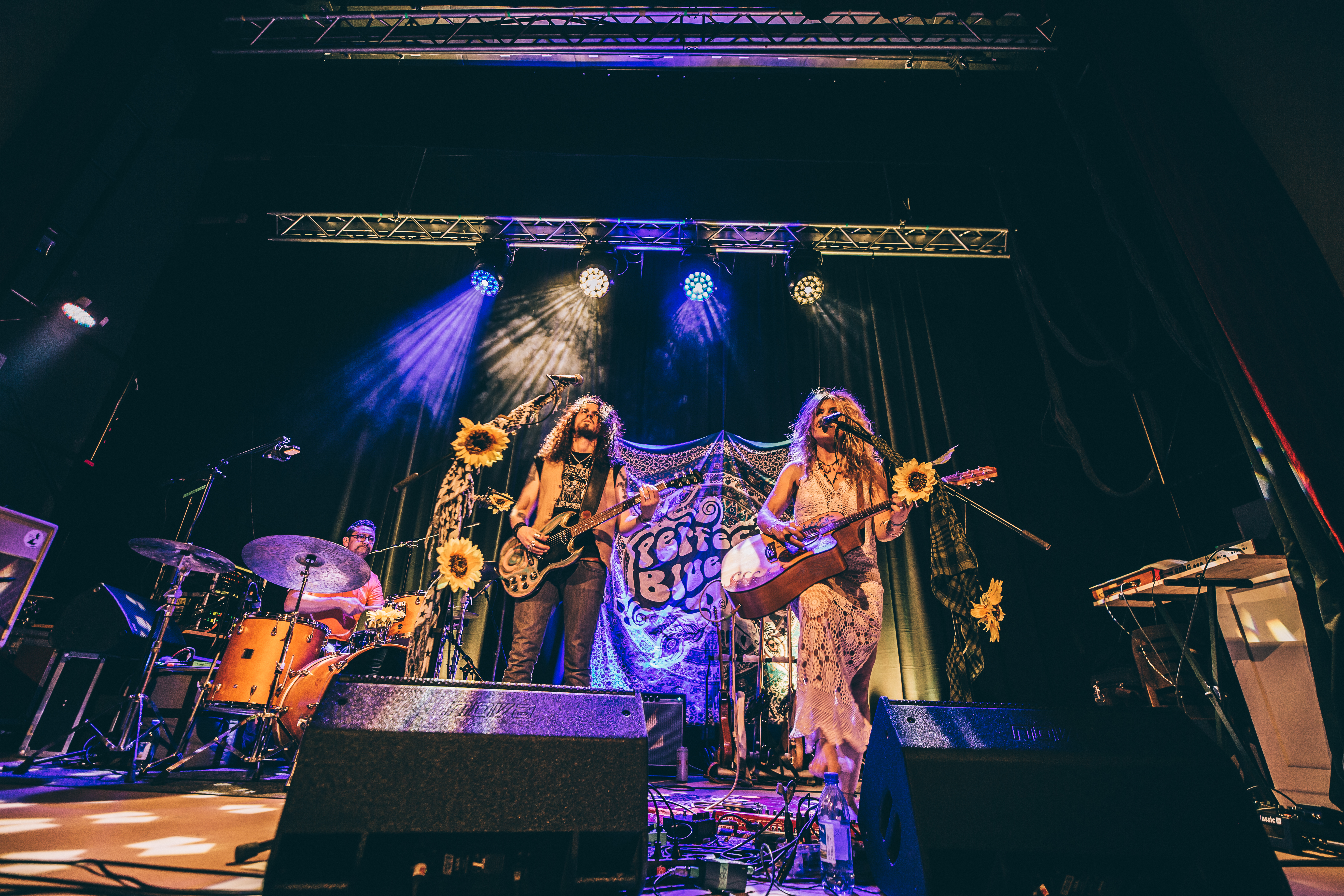 Perfect Blue Sky Mailaul Festival Estonia Photo copyright free to use by Oliver Kuusk